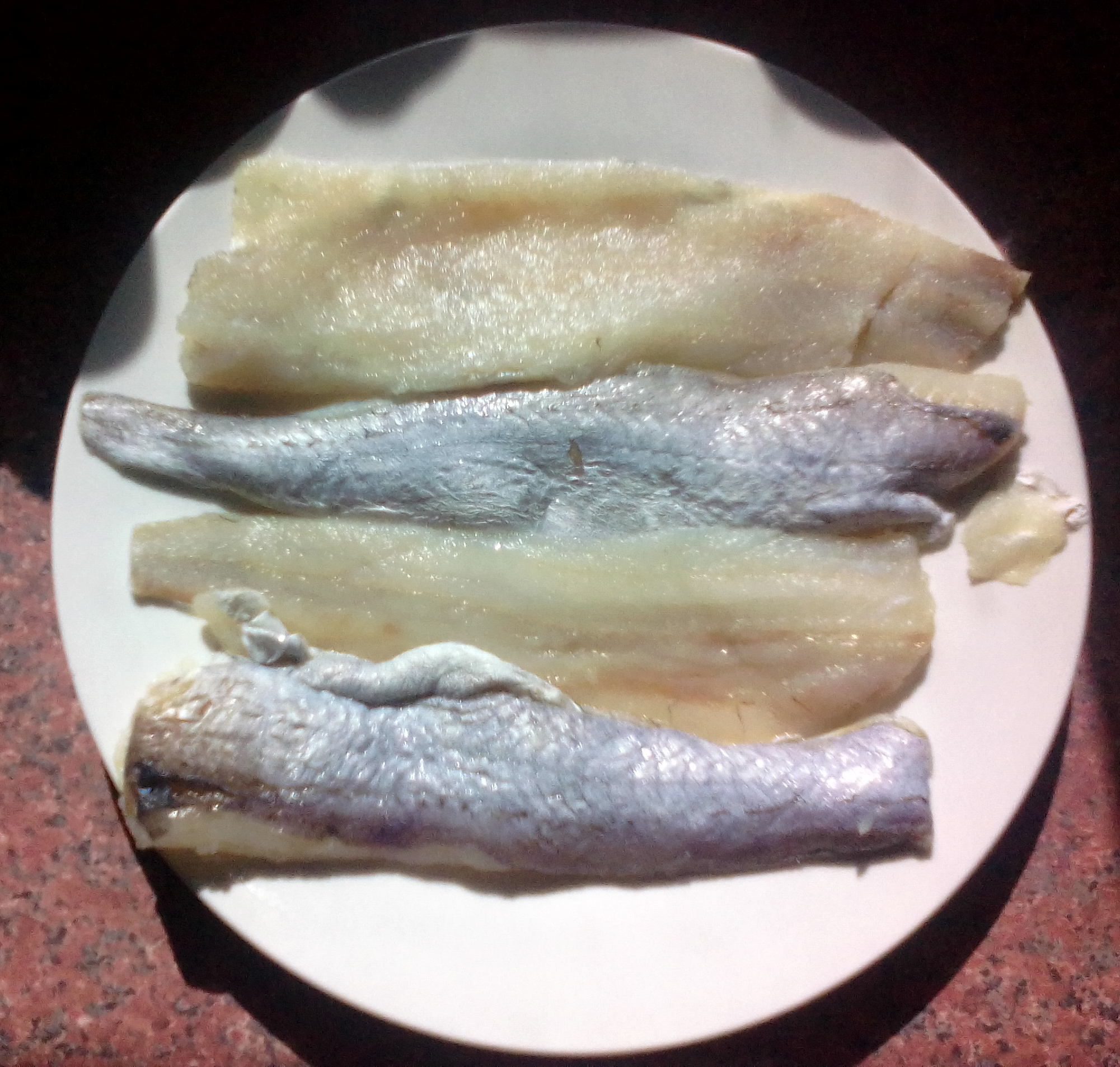 Southern blue whiting fillet from Coles supermarket